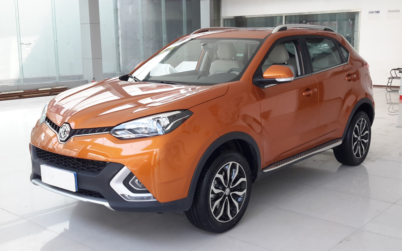 MG GS photographed in Xi'an, Shaanxi province, China.